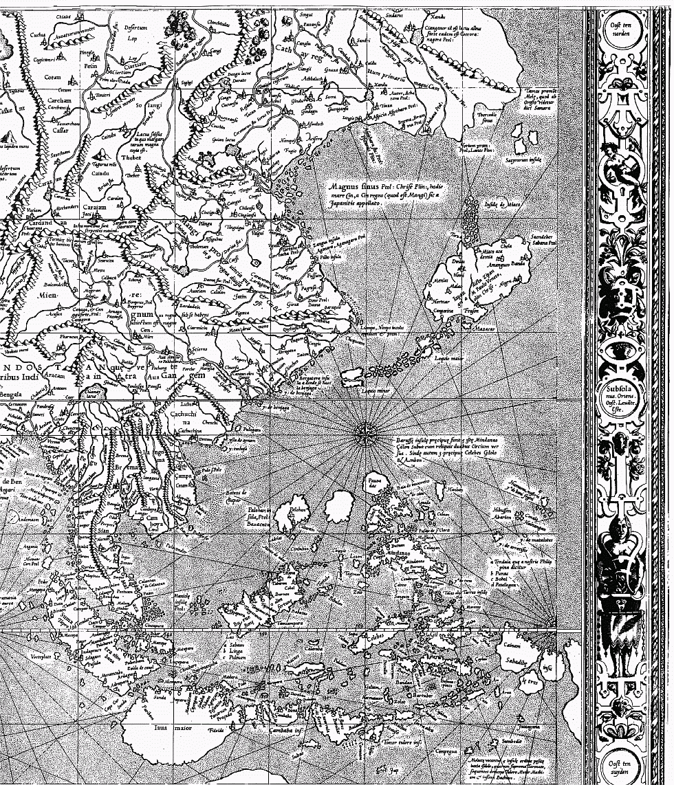 Mercator 1569 world map sheet 12 of 18